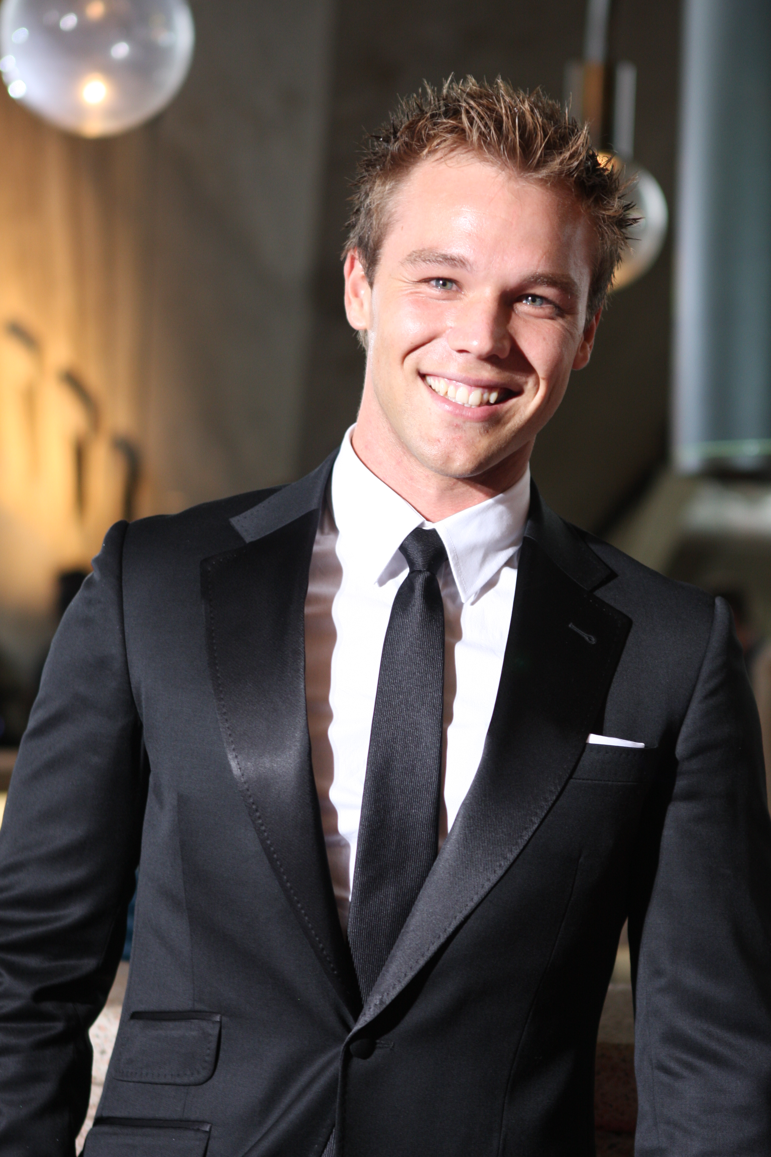 Australian actor Lincoln Lewis at the AACTA award 2012, Sydney, Australia